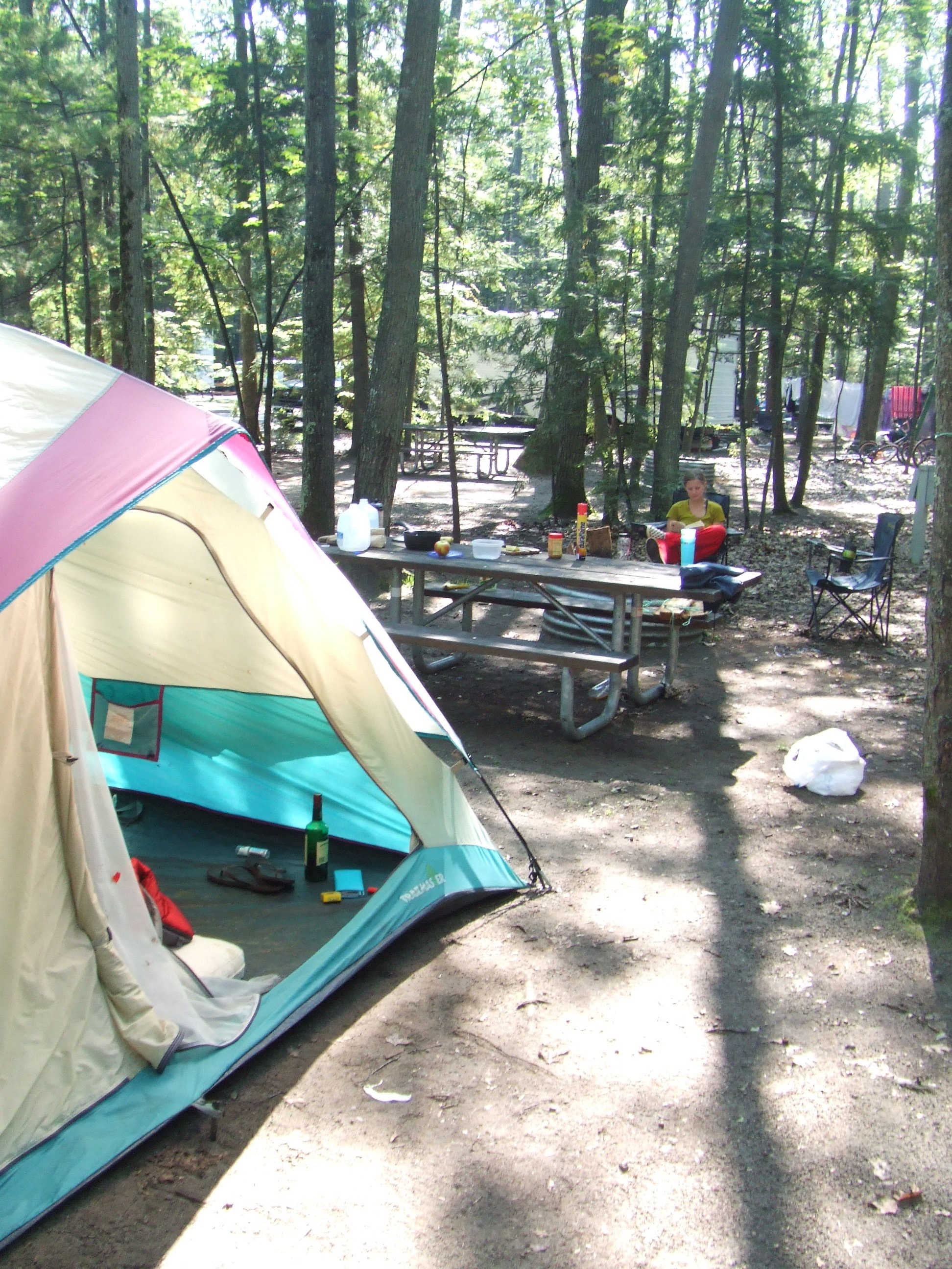 Campsite at Interlochen State Park in northern Michigan